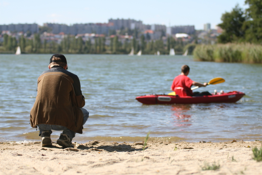 Pavel Cvrček sits on the lakeside of Great Bolevec Lake in Pilsen.